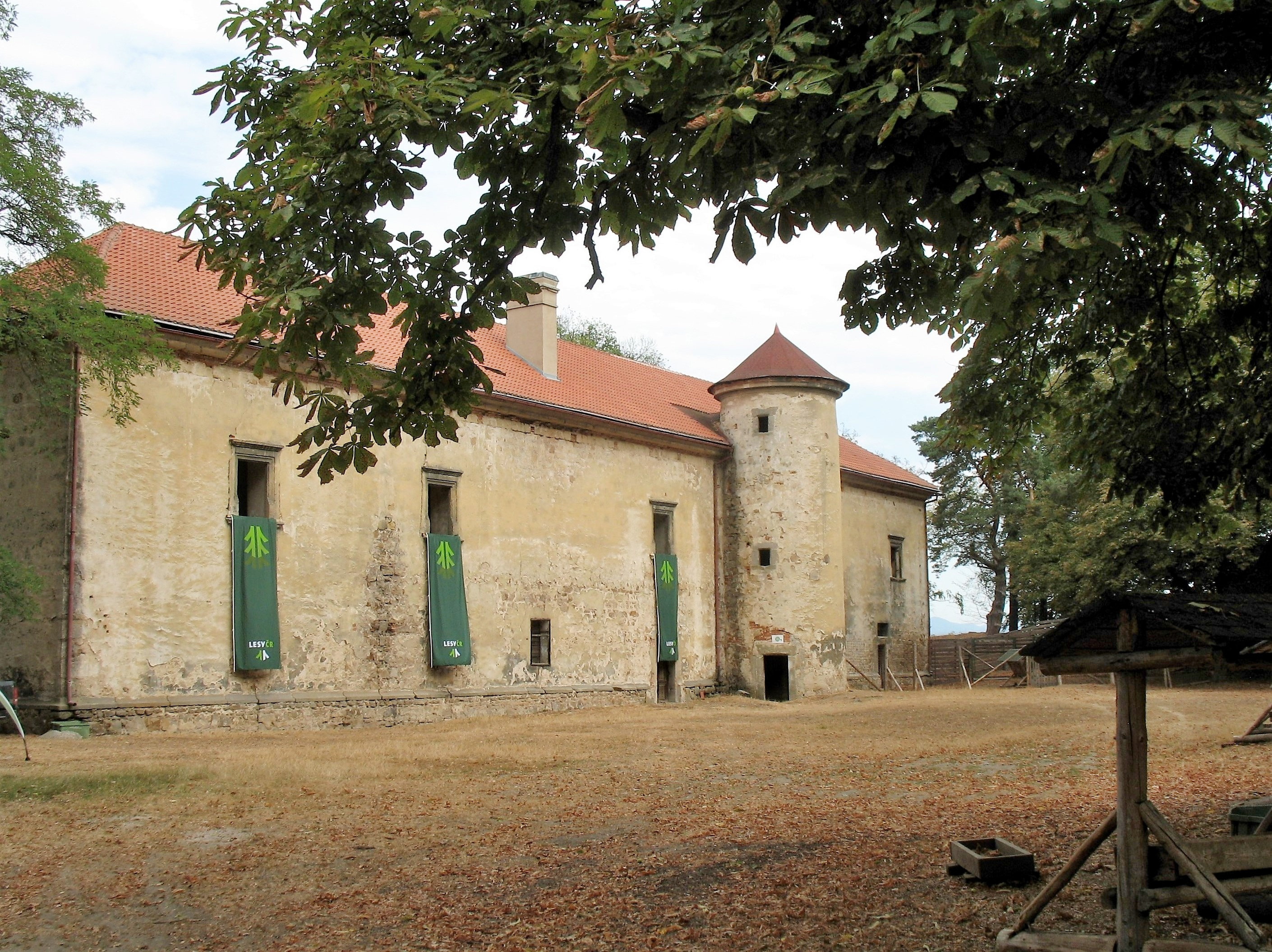 Renaissance Castle Vřisek near Zahrádky, Česká Lípa District, Northern Bohemia